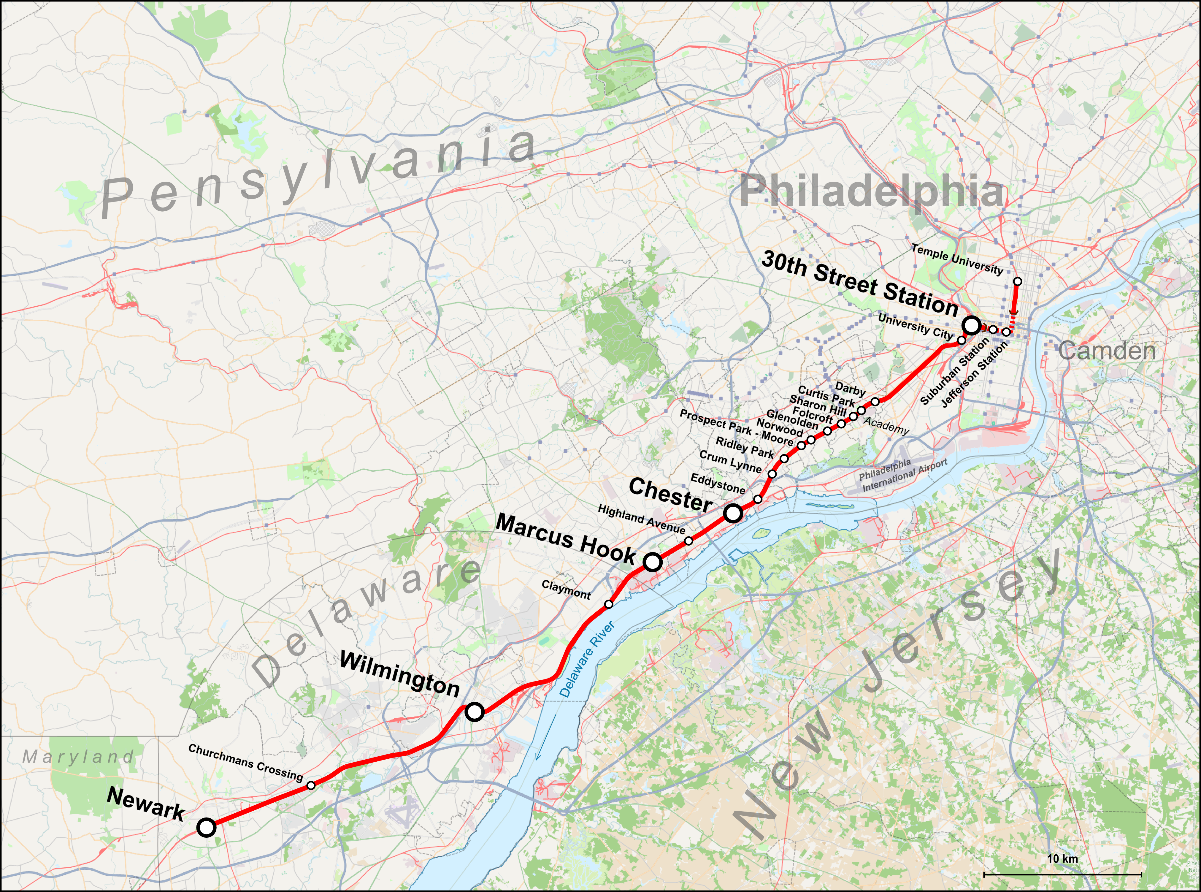 Map of the Wilmington/Newark Line in US, showing as it was in service 2015.